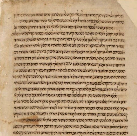 Page 12a from the Responses of the Geonim, Geonim [author]; Stern, Solomon Gottlieb, 1807-1883 [previous owner] North Africa or Greece; 1300-1399, now at Österreichische Nationalbibliothek in Vienna